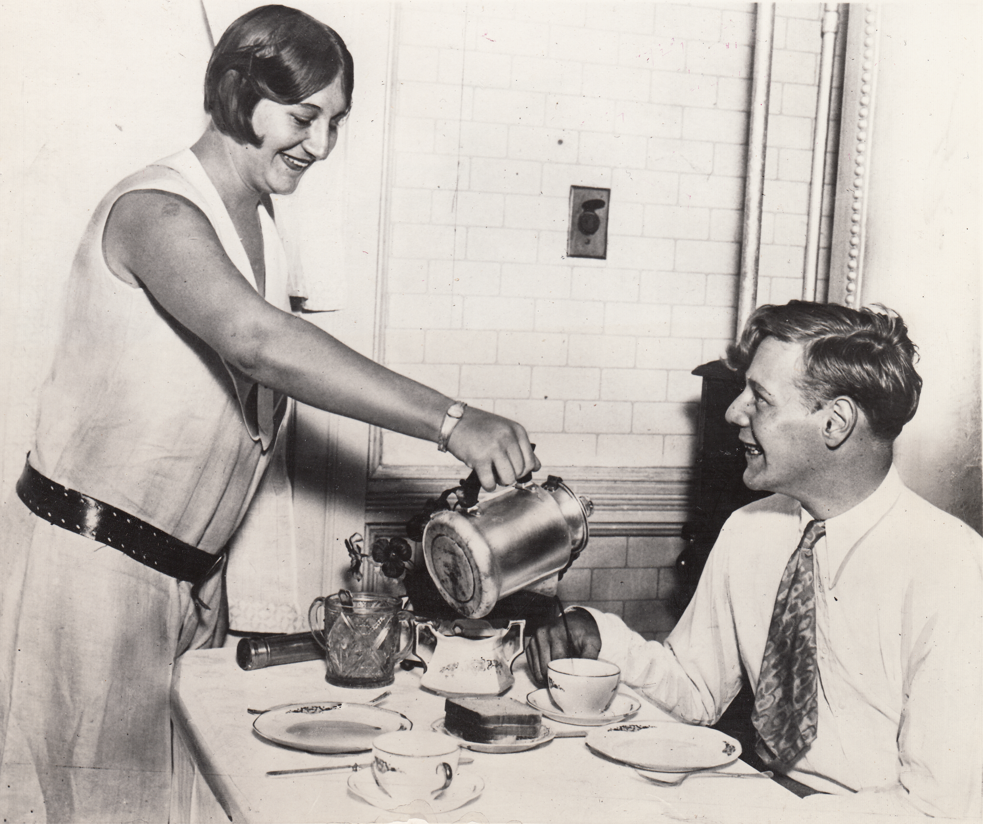 Eddie August Schneider (1911-1940) with a hot cup of coffee from his sister Alice Schneider Harms (1913-2002) on August 25, 1930 in Jersey City, New Jersey